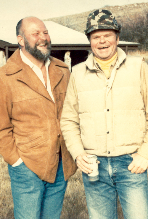 Ray Duncan and Justin Meyer, founders of Silver Oak Cellars.